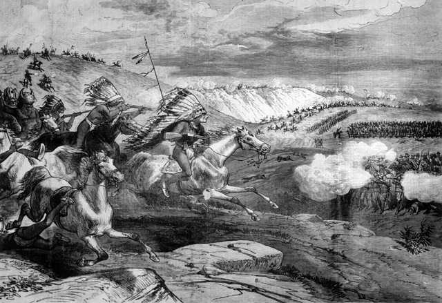 Title: The Sioux war General Crook's battle on the Rosebud River- The Sioux charging Colonel Royall's detachment of cavalry, June 17th. Caption: Native American (Sioux) men on horseback charge a cavalry detachment in Montana, part of General Crook's Expedition. The Sioux men hold rifles and wear feather headdresses. Source: Frank Leslie's Illustrated Newspaper 8-12-[18]76, p 376.